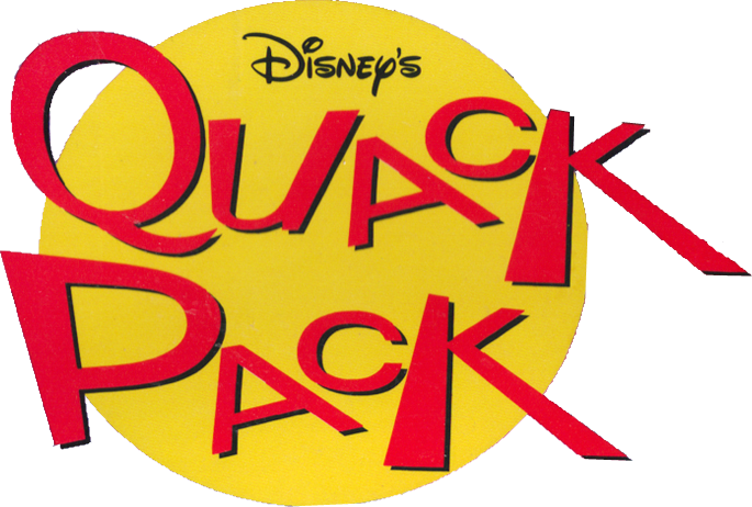 The official logo of "Quack Pack"